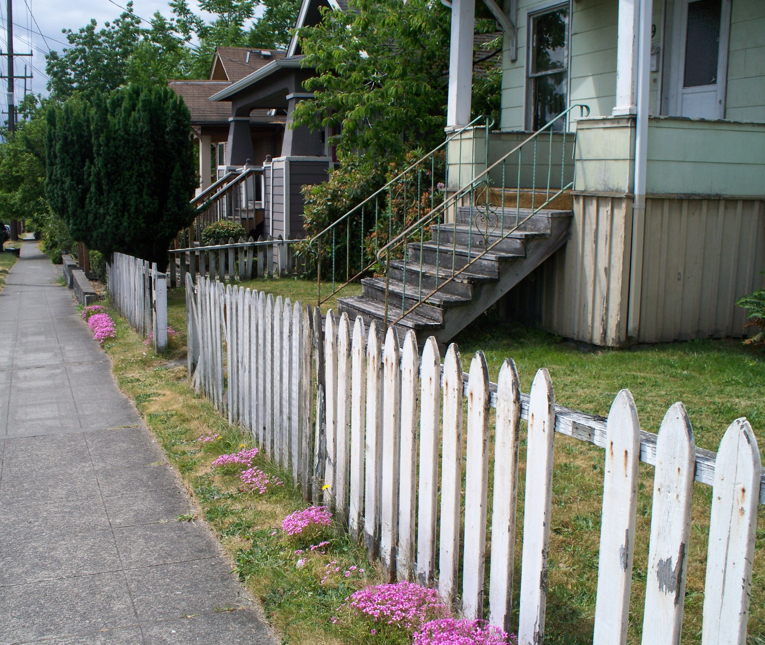 Classic picket fence in need of some painting and maintenance.